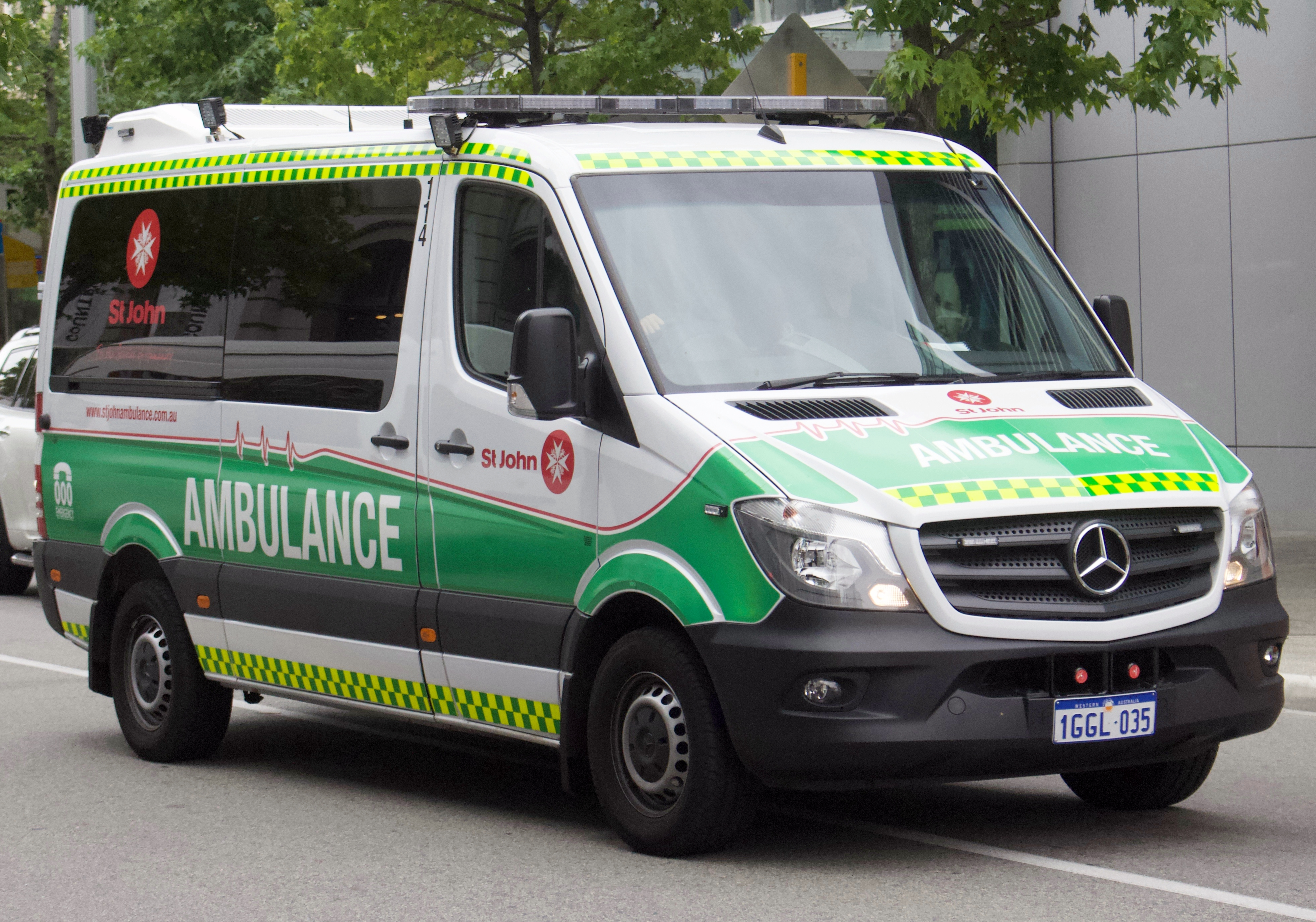 2017 Mercedes-Benz Sprinter (W 906) 313 CDI MWB van, St John Ambulance. Photographed in Perth, Western Australia, Australia.